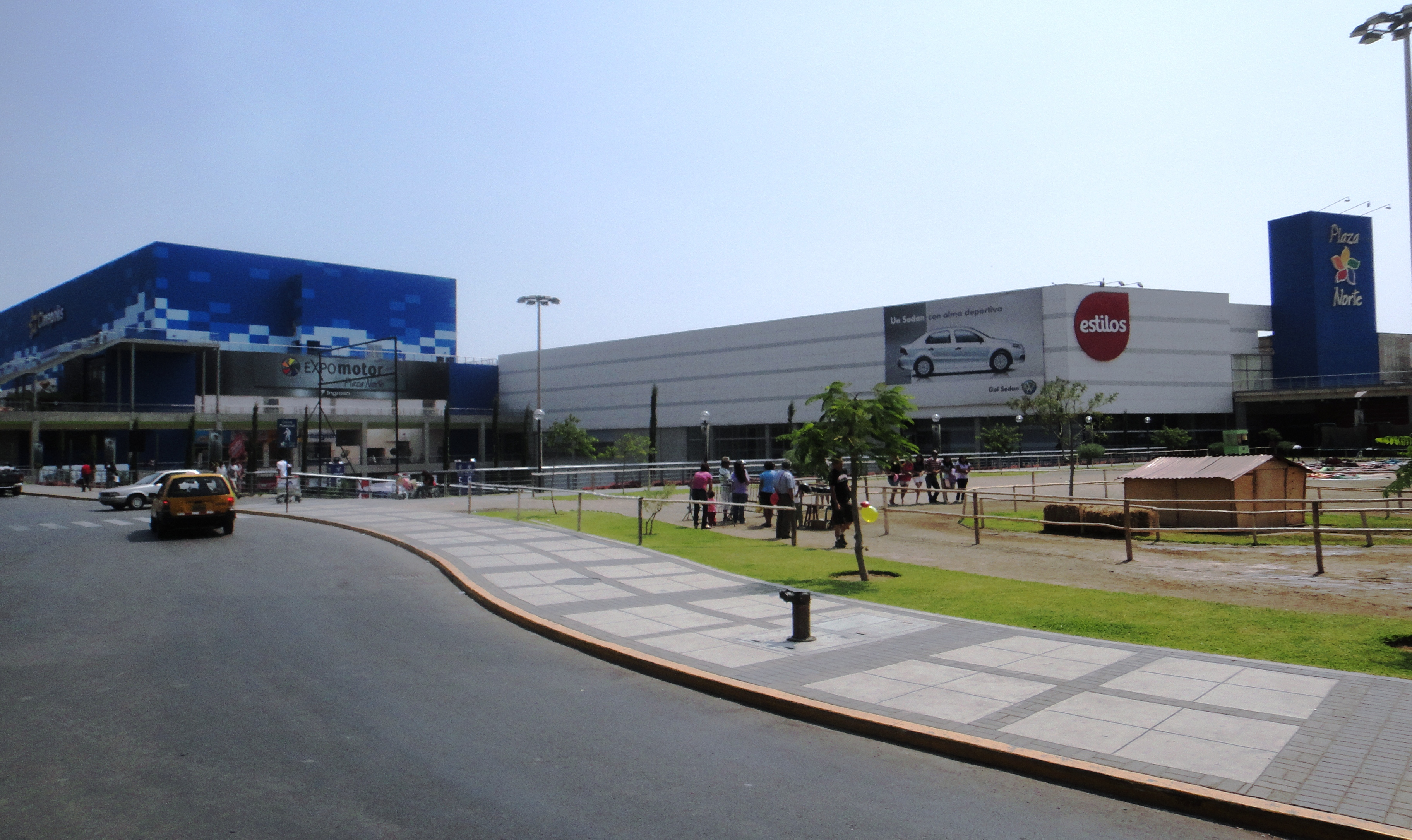 Mall Plaza Norte in Independencia Distrit, Lima-Peru.